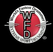 Wfd Logo